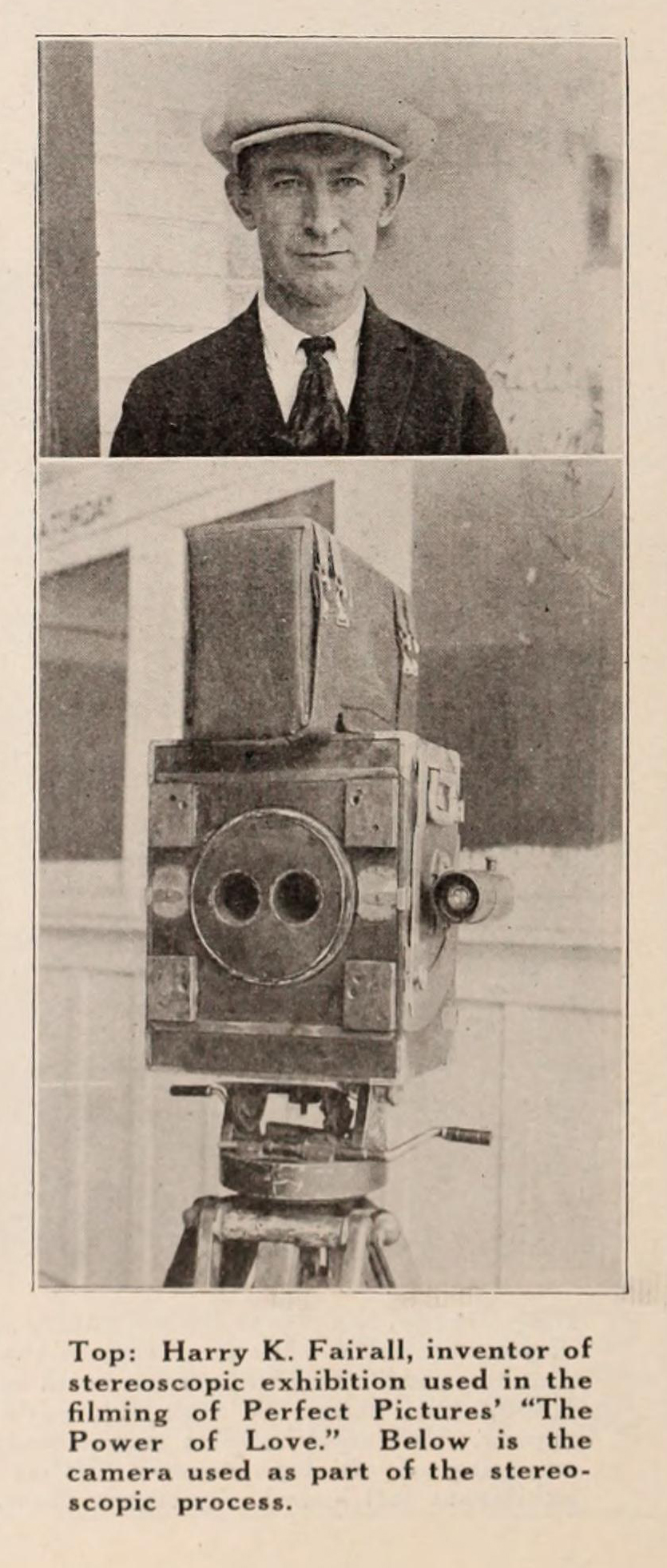 Illustration of an article in Exhibitor's Herald on the American film The Power of Love